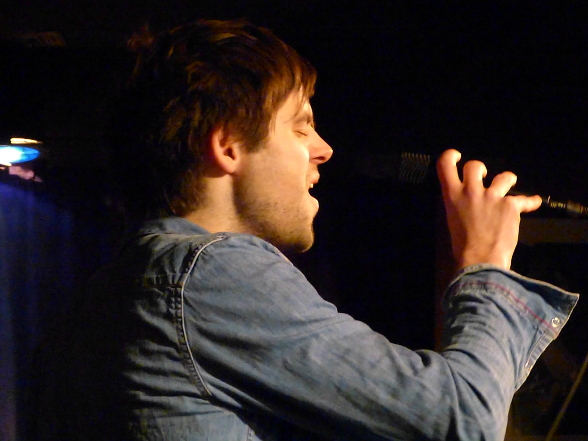 Tobias Christl in concert at A-Trane, Berlin, Germany, December 10th, 2012